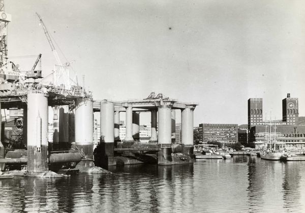 Aker H3 platforms under construction at Akers mekaniske verksted (Aker mechanical workshop) at 1970 - 1975. Norway, Oslo, Pipervika.